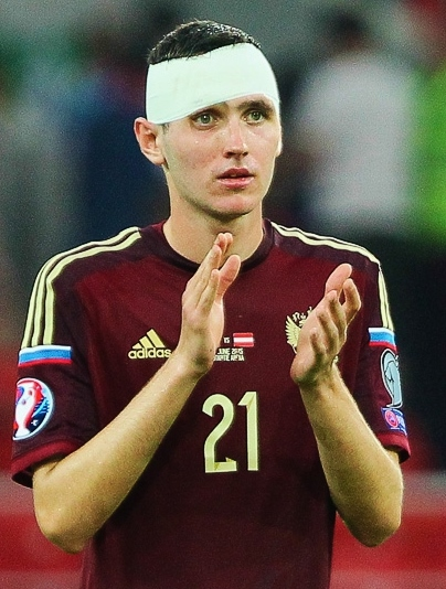 Nikita Chernov